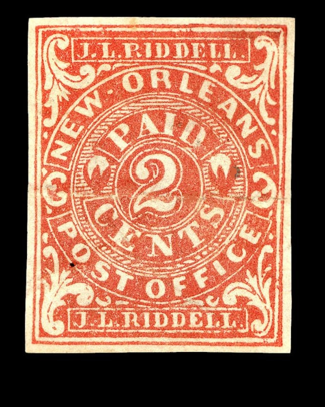 New Orleans postmaster provisional single Scott Catalogue CSA: 62X2 Description: First printing, 2-cent New Orleans Postmaster's Provisional, not available to public until 1862. Typographed adhesives stereographed from woodcut. Printing characteristics same as blue issue (CSA Scott 62X1).